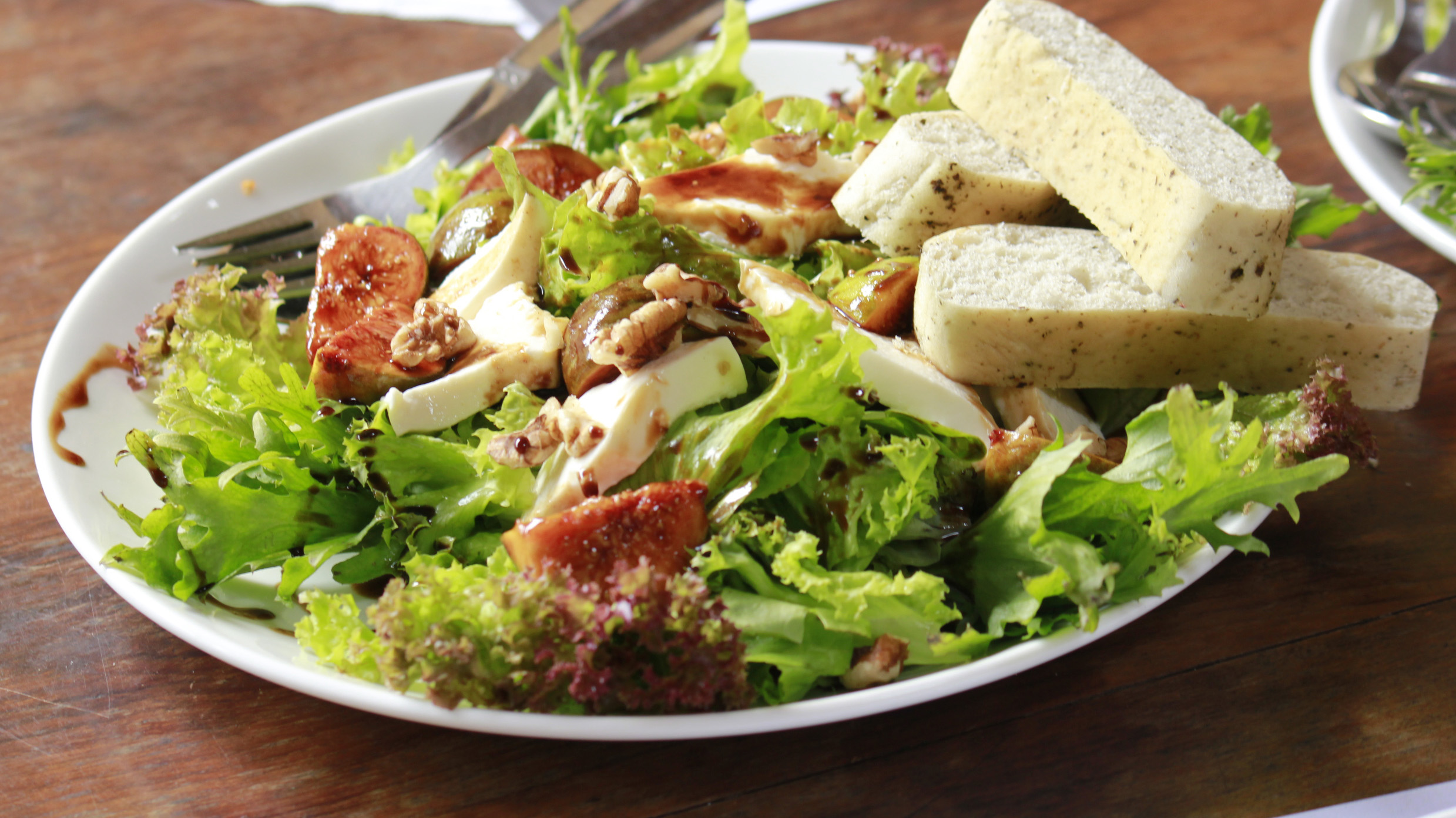 Cooked fig, walnuts, lettuce, cheese, served with garlic bread, a signature dish of "Rogue Elephant" café and Bengaluru